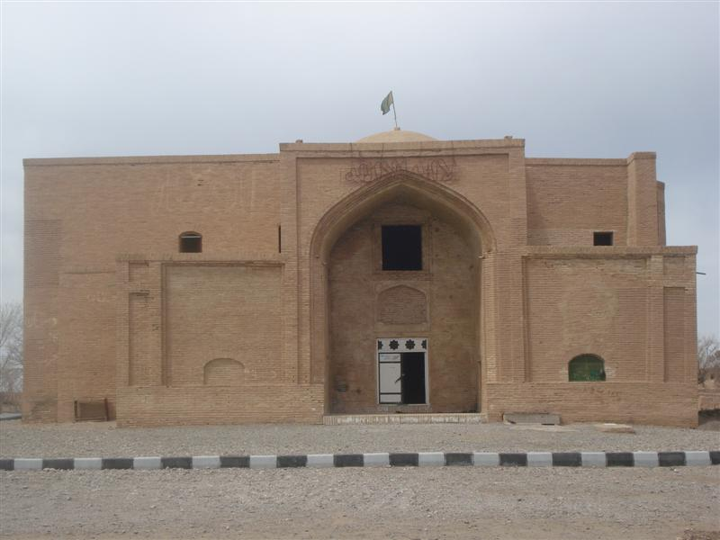 an exterior image of Shahzadeh Ghasem Anvar Tomb , Mahmoodabad, Iran